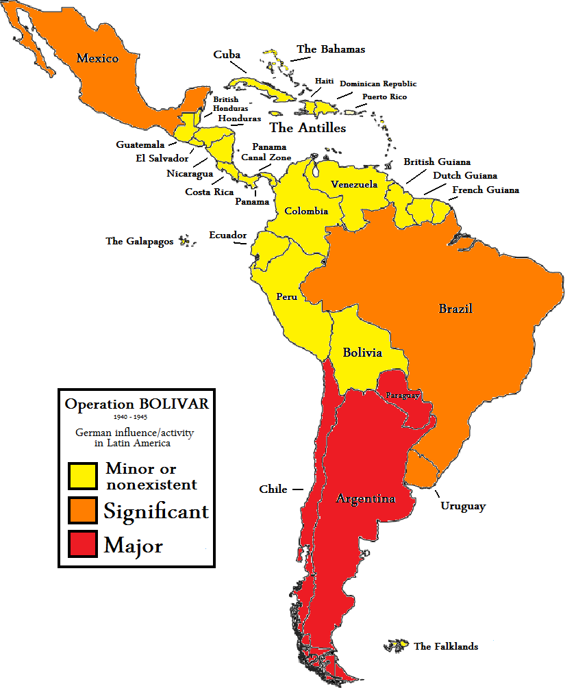 Operation BOLIVAR World War II Latin America